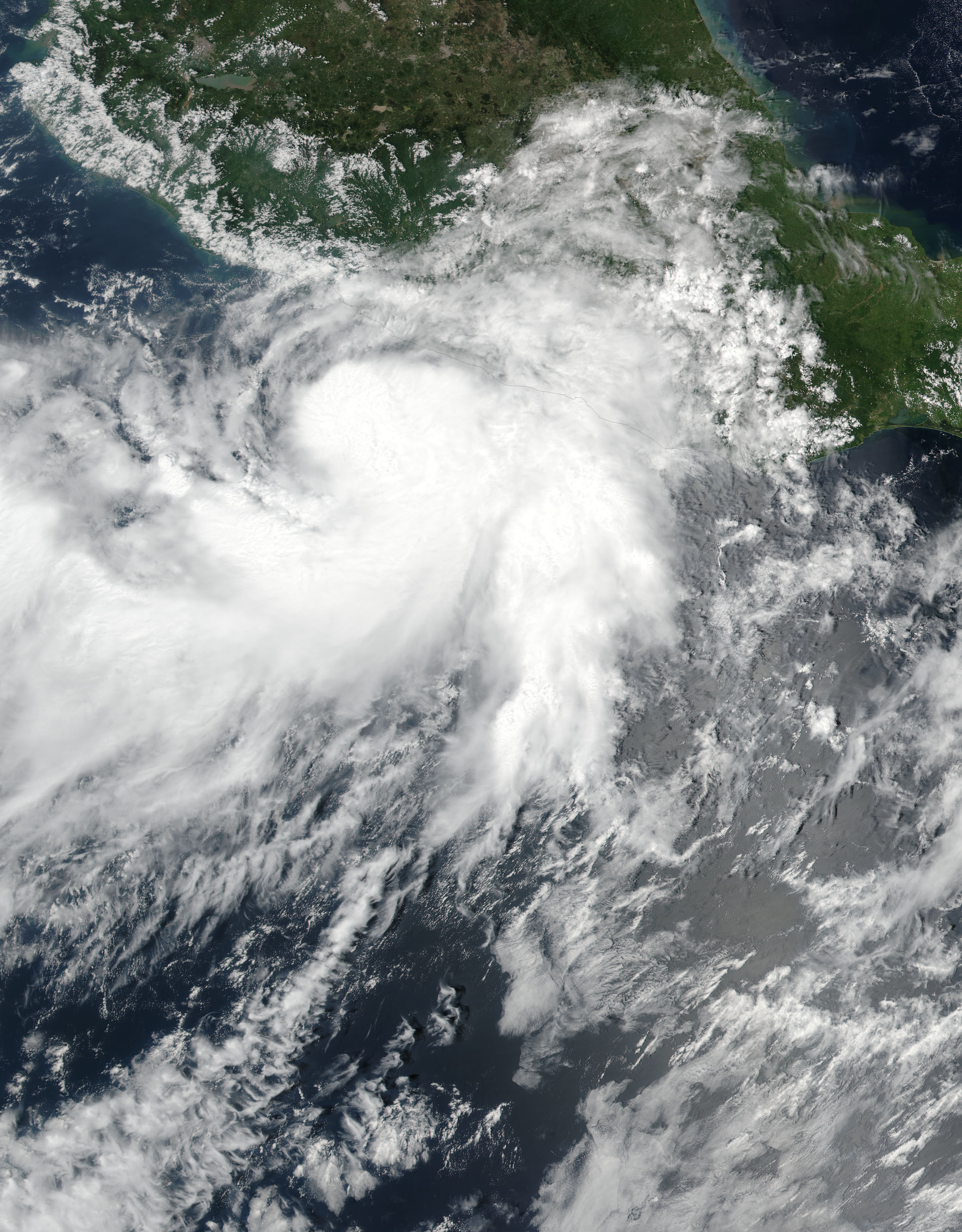 Tropical Storm Max (16E) over Mexico